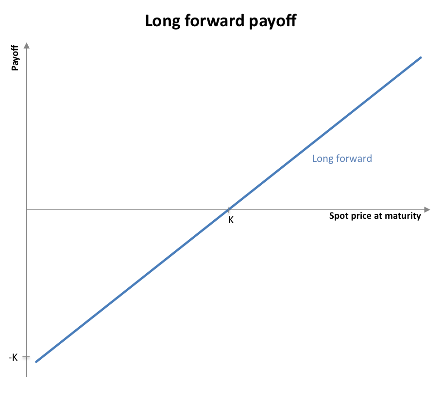 payoff diagram of a long position in a forward contract